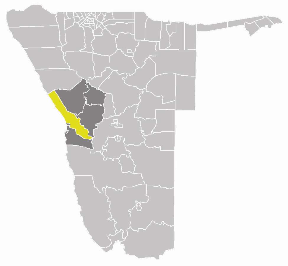 map of the Arandis constituency within the Erongo region, Namibia